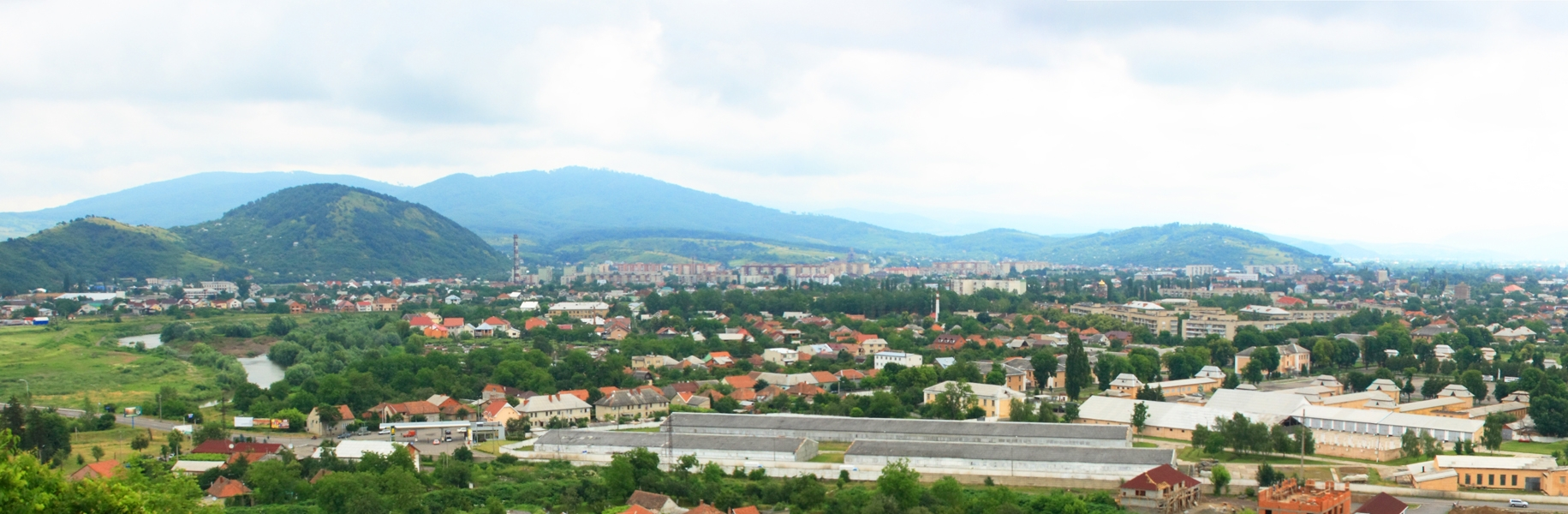 Mukachevo, Ukraine